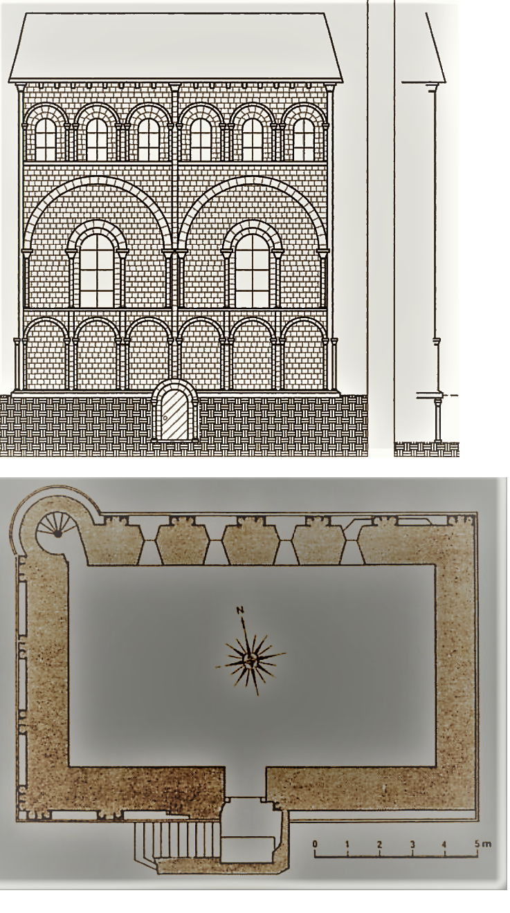 בית המדרש בגטו רואן שבצרפת